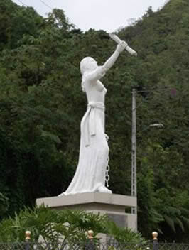 NBP branch in Jarral Shareef.